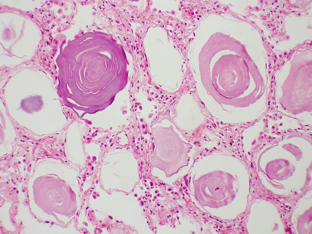 Alveolar microlithiasis The alveoli are filled with large lamellated structures containing calcium and phosphate. They usually range in size from 250-750 licrons but may sometimes be considerably larger. They may be localized around interlobular septae, bronchovascular bundles and pleura. They should be distinguished from corpora amylacea.